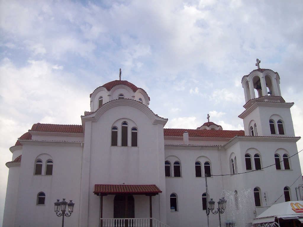 Saint Photini Church in Paralia Katerinis by Tilemahos Eftimiadis